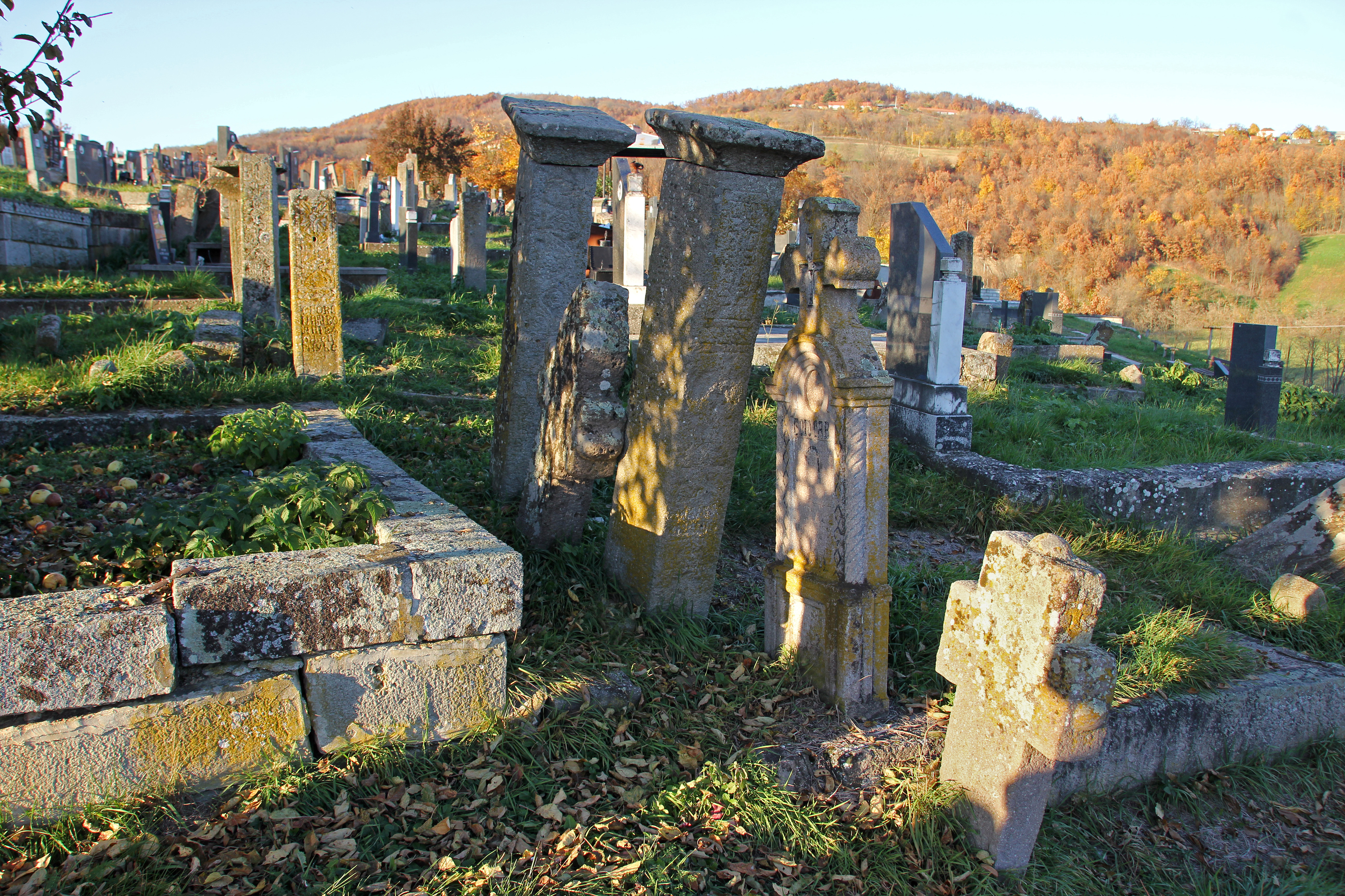 Old gravestones at the cemetery in the village of Donja Crnuca (the municipality of Gornji Milanovac), Serbia.